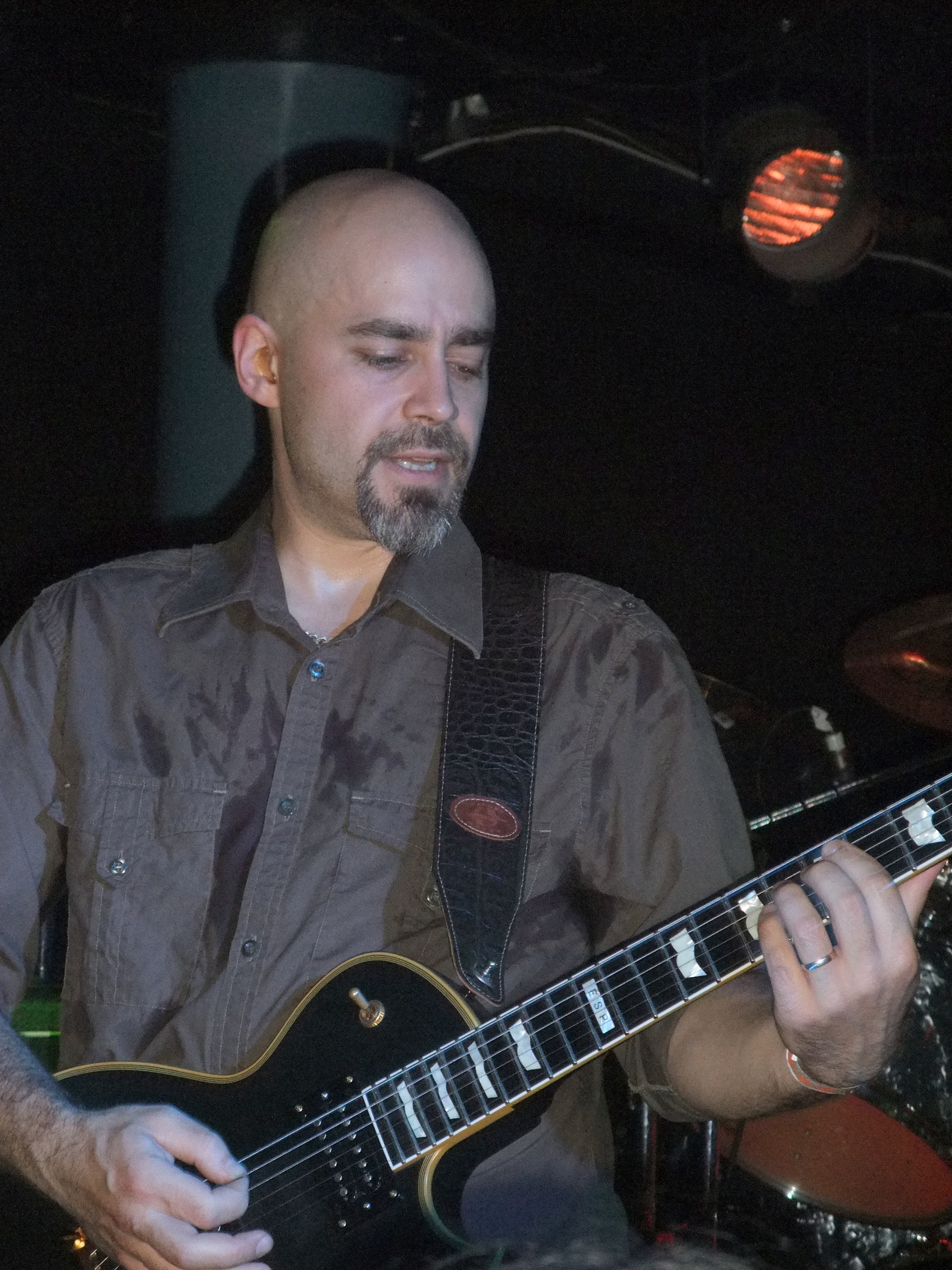 Stefan Weinerhall performing with Falconer at The Underworld in London, 17th July 2009